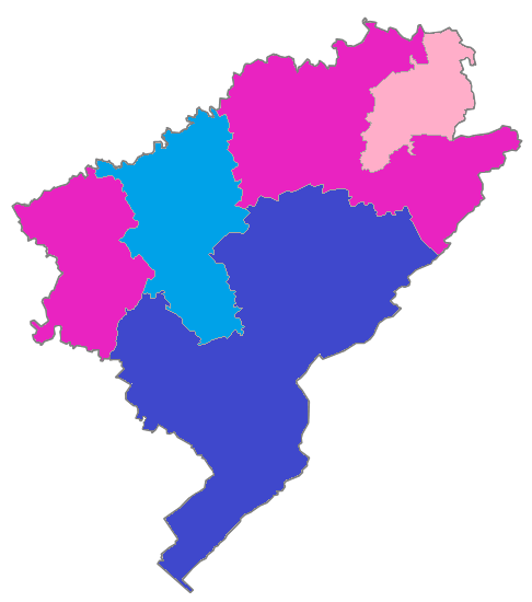 French legislative election in Doubs, 1988